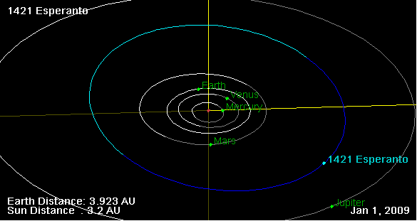 1421 Esperanto orbit, and his position on 01 Jan 2009 (NASA Orbit Viewer applet)